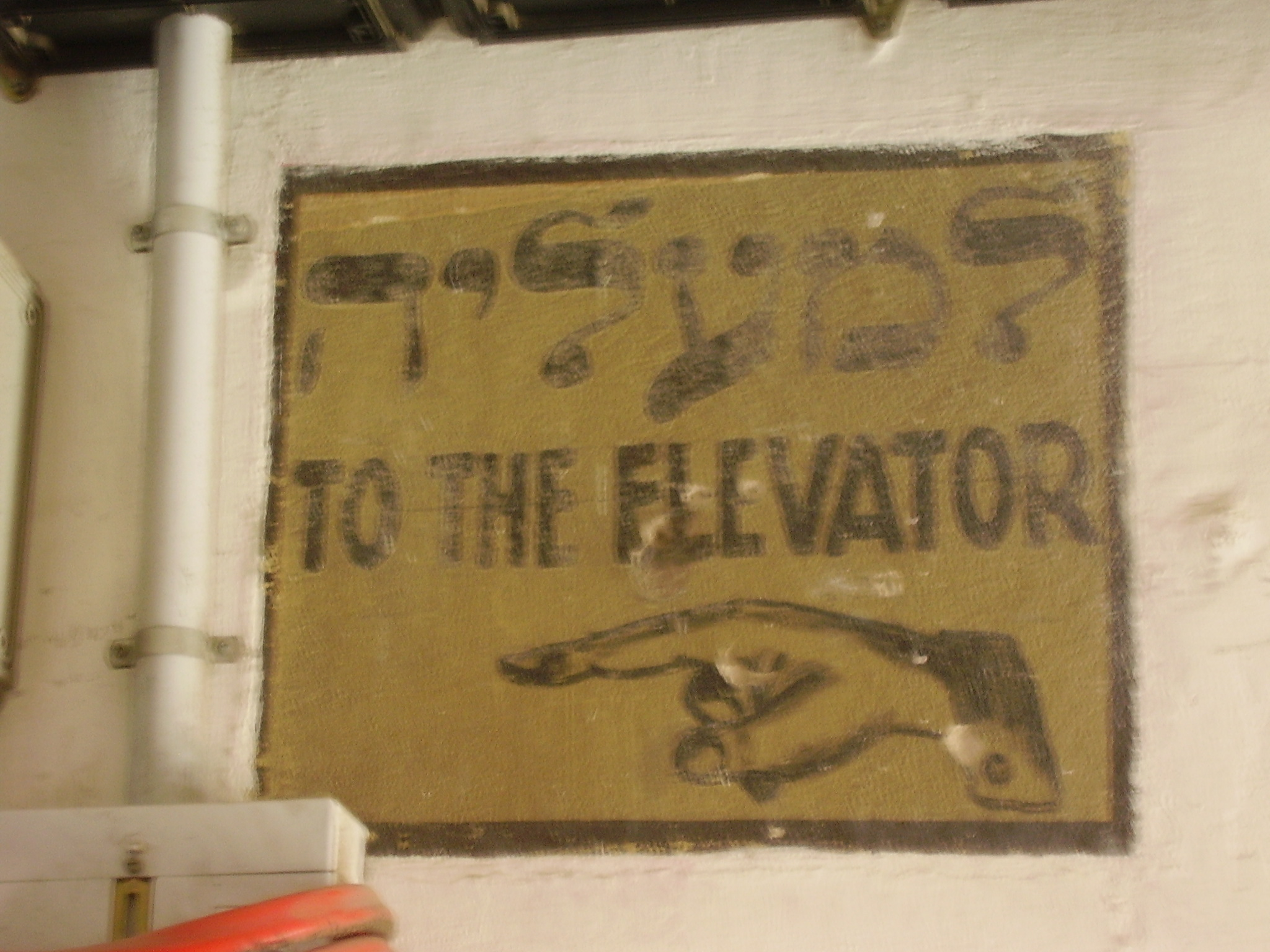 the first elevator in palestine